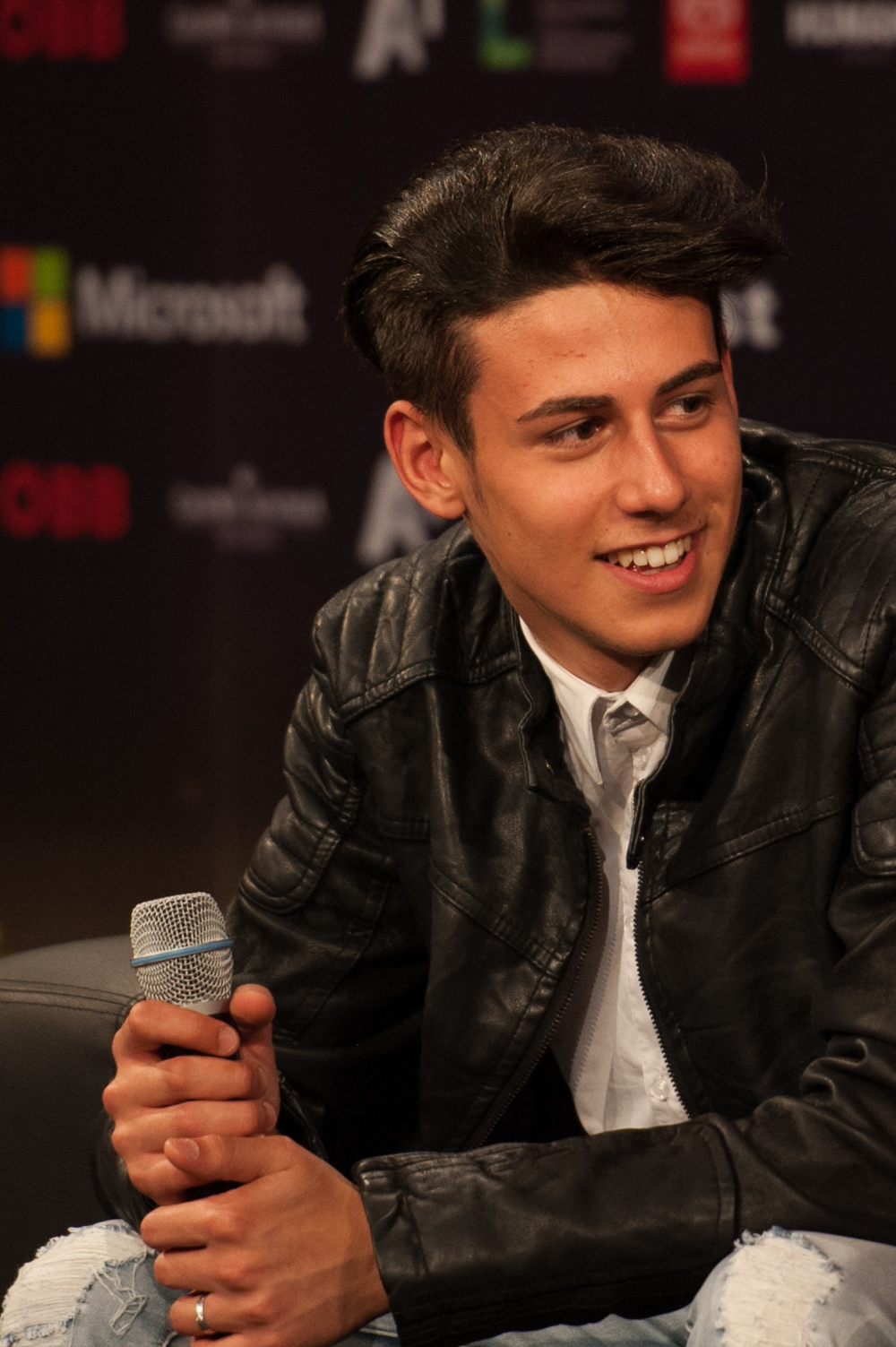 Eurovision Song Contest Vienna 2015: Michele Perniola